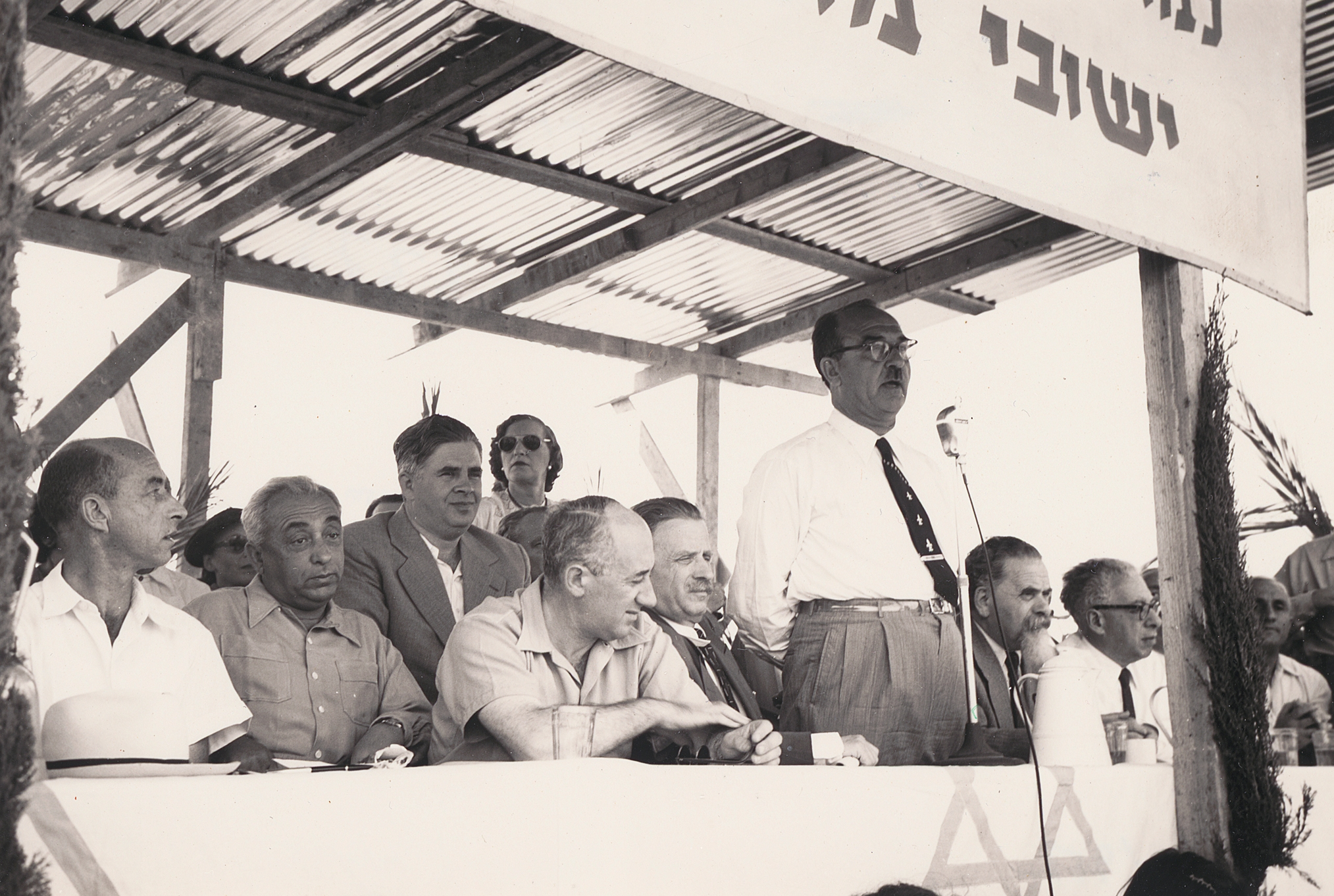 Minister of Finance and Head of the Settlement Department, Levi Eshkol, during a ceremony for the establishment of a settlement in the Gezer Regional Council. To his right is Yitzhak Gruenbaum. The second to his left - Moshe Kol.